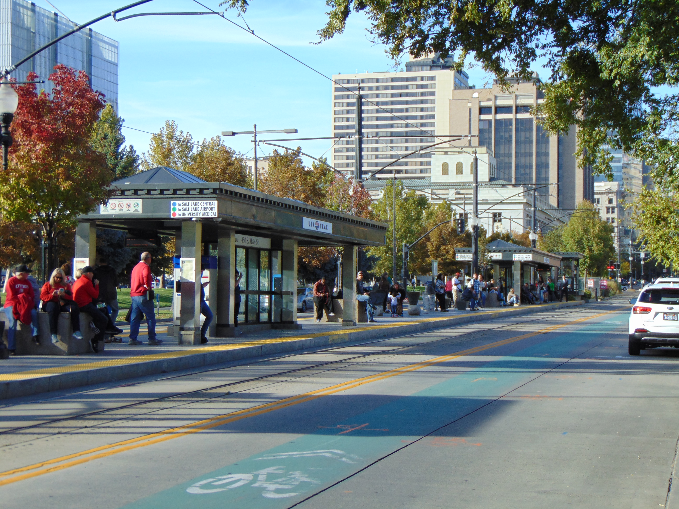 Looking northwest at the passenger platform at Courthouse station in Salt Lake City, Utah, October 2016